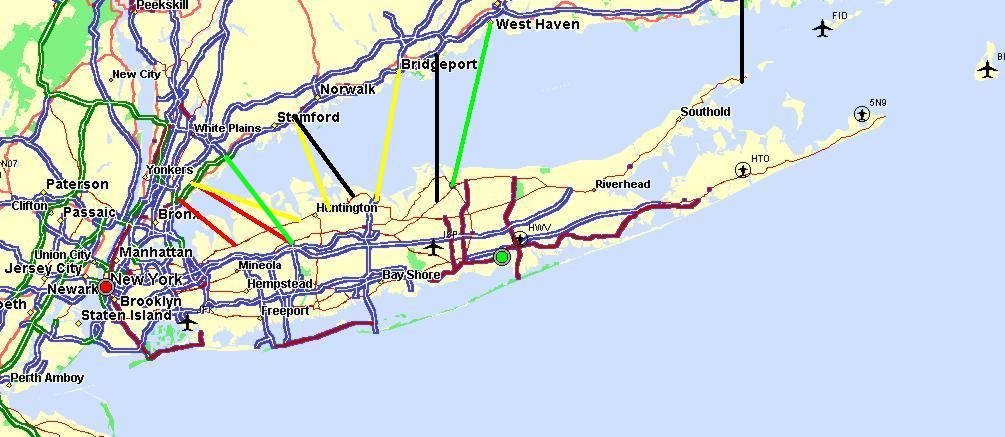 My Image Of The Route Of The Proposed Routes Of The Long Island Bridges.